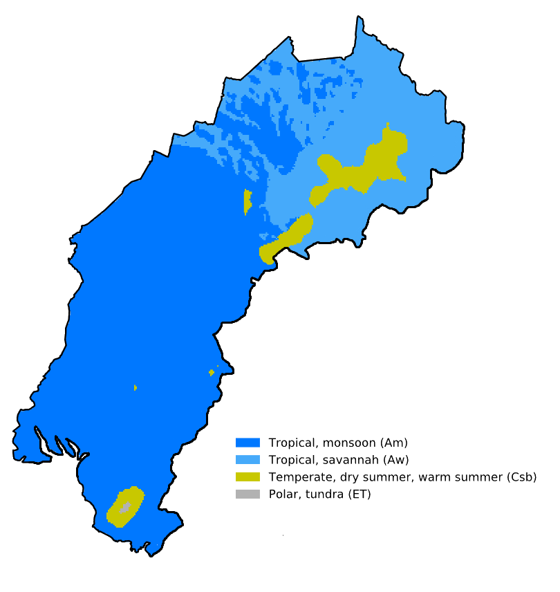 Köppen–Geiger climate classification map for Cameroon